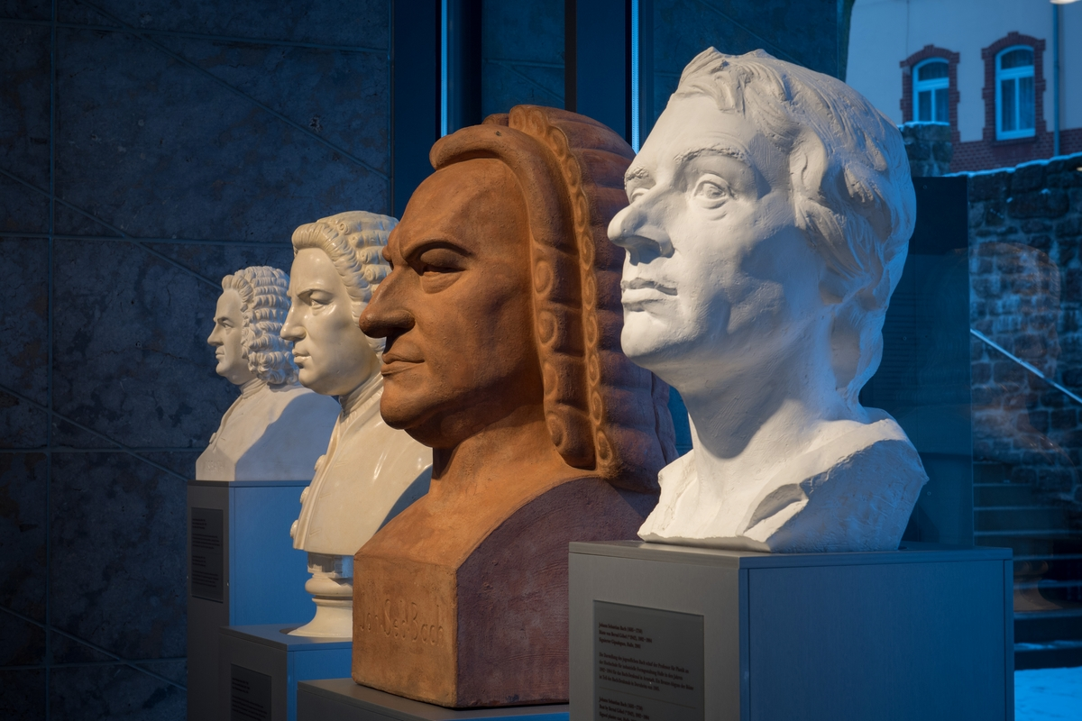 Busts of Johann Sebastian Bach at the Bachhaus Eisenach, from Hermann Knaur (1843), Aurelio Micheli (1874), Emma Cotta (1925) and Bernd Goebel (1985) (left to right).